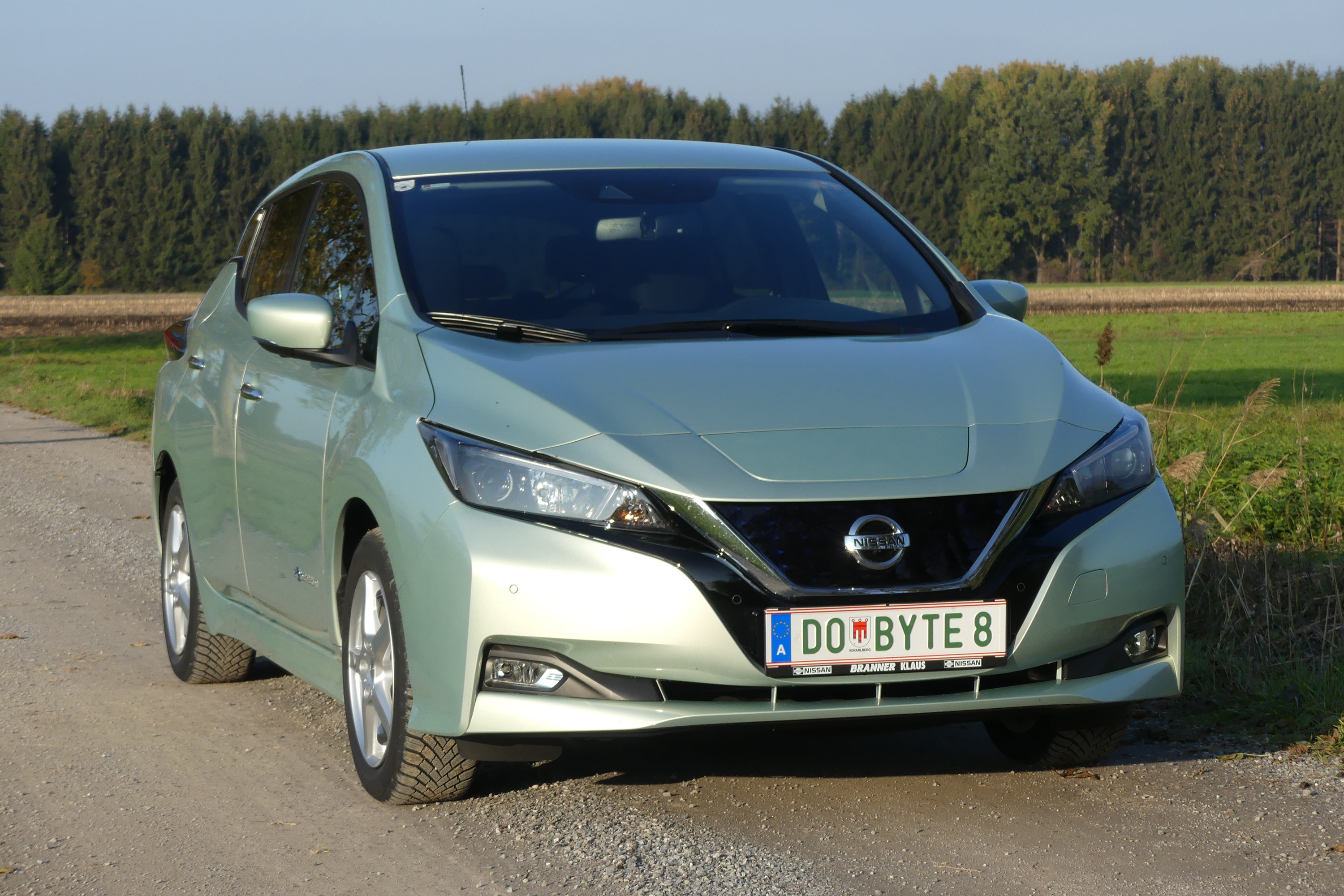 Front view of a Nissan Leaf ZE1 built in 2018 in color “spring cloud”